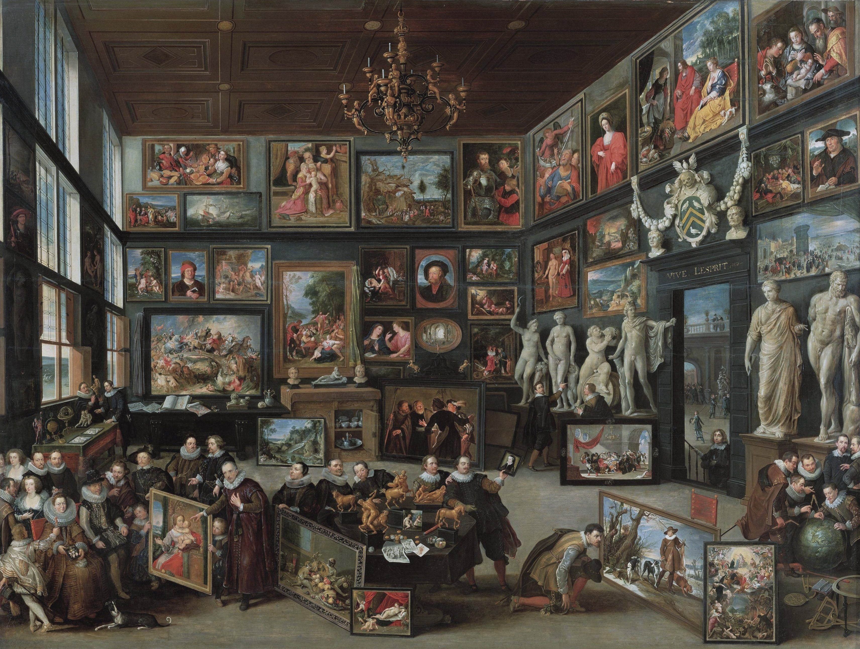 102,5 x 137,5 cm signed b.c.: G.V.haecht / 1628